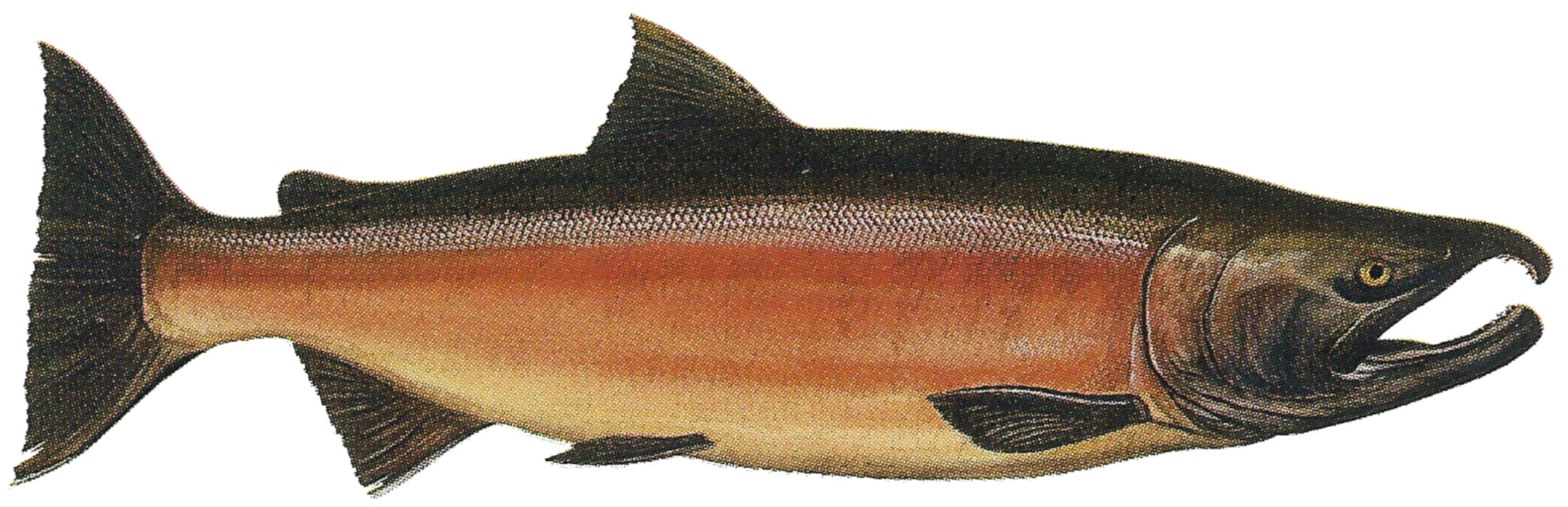 Drawing of male freshwater phase Coho (silver) salmon (Oncorhynchus kisutch) from a pamphlet about the Lake Washington Ship Canal Fish Ladder at the Hiram M. Chittenden Locks, Seattle, Washington, scanned at 600 dpi and cleaned up.